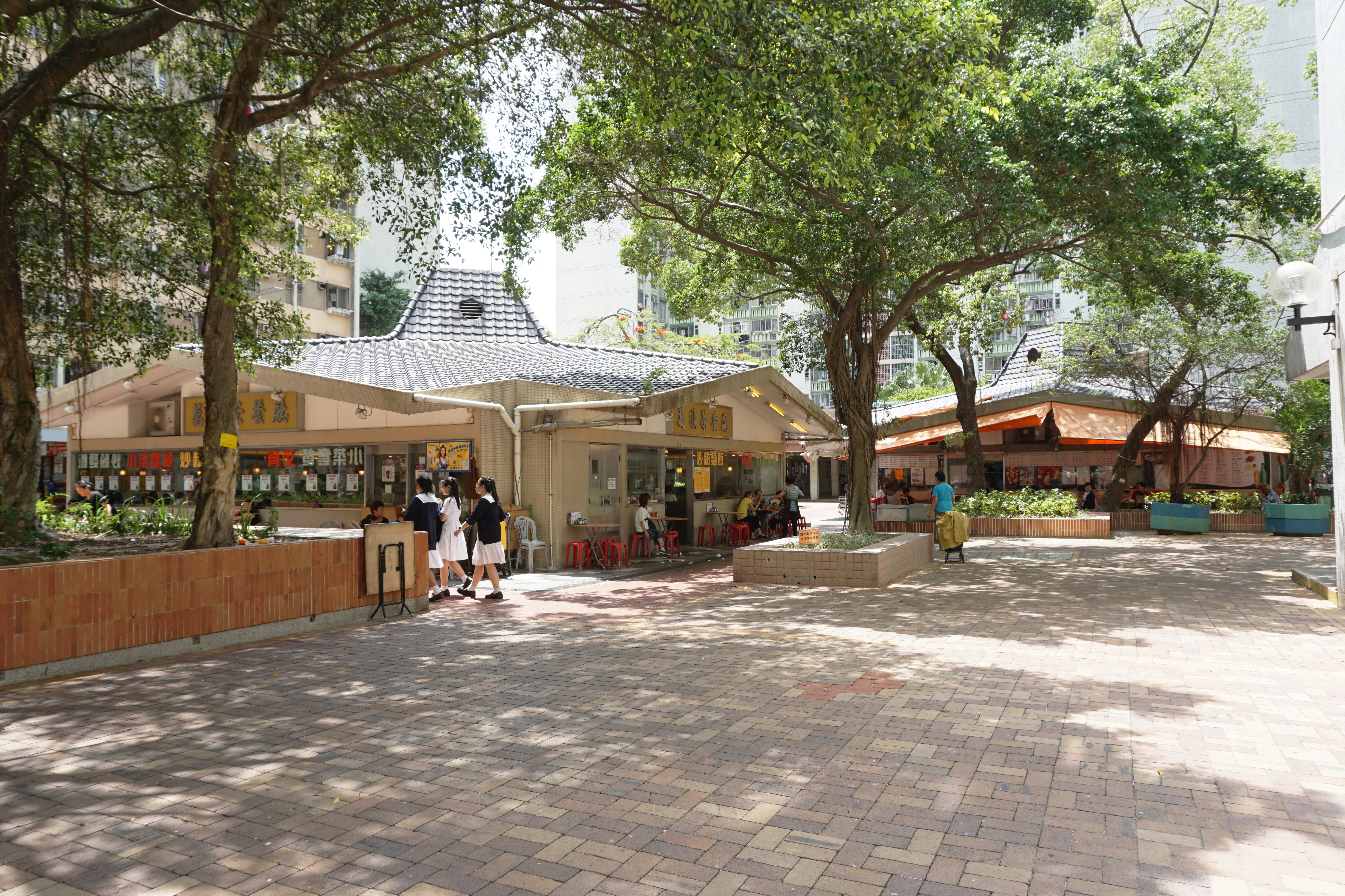 Shun Tin Estate in Sau Mau Ping, Hong Kong.